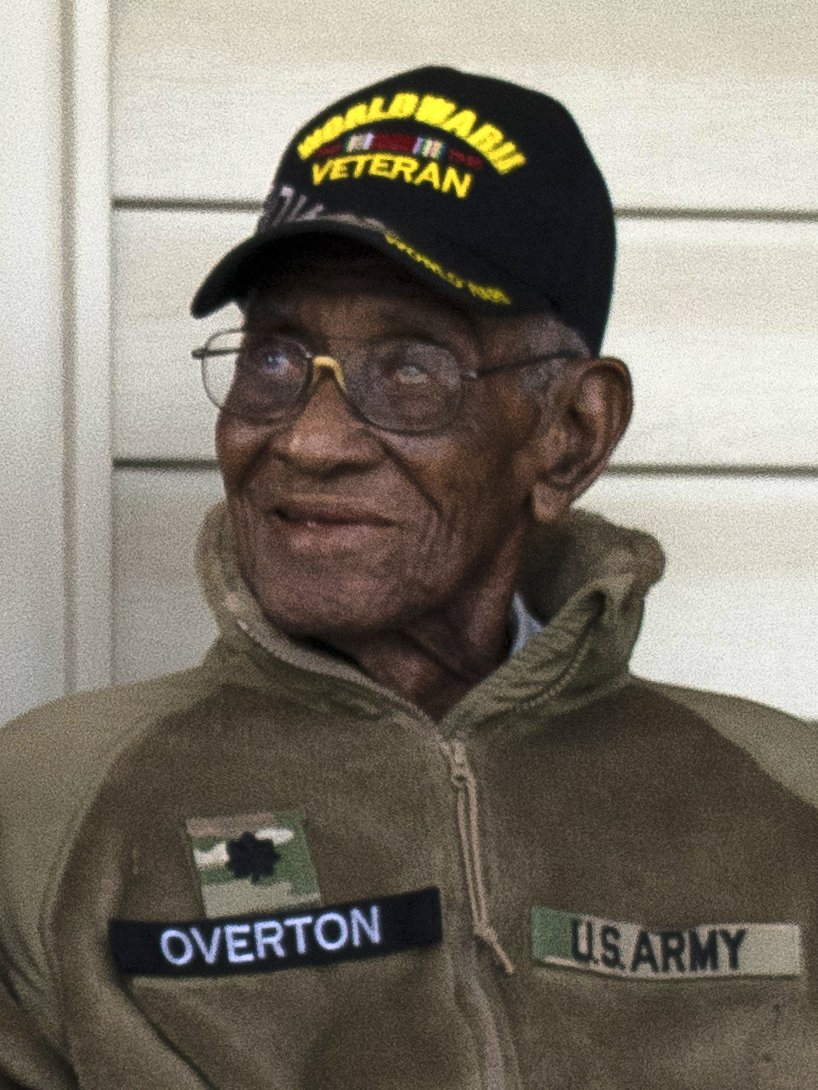 Austin Texas, Mayor Steve Adler came to visit Richard Overton before the Veteran's Day Parade in November 2017. Richard Arvin Overton in a U.S. Army jacket with the name OVERTON on the right side